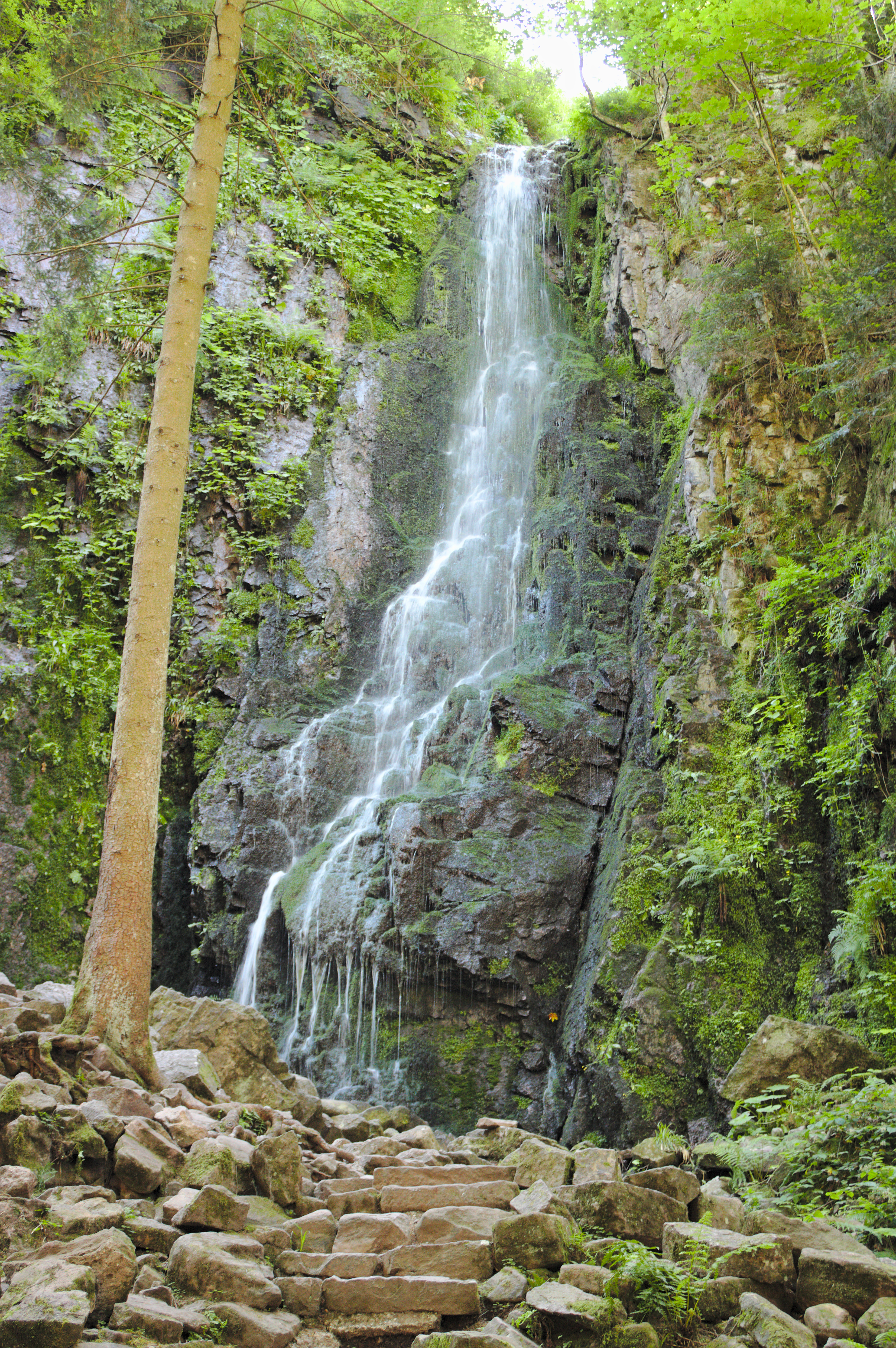 Burgbachwasserfall